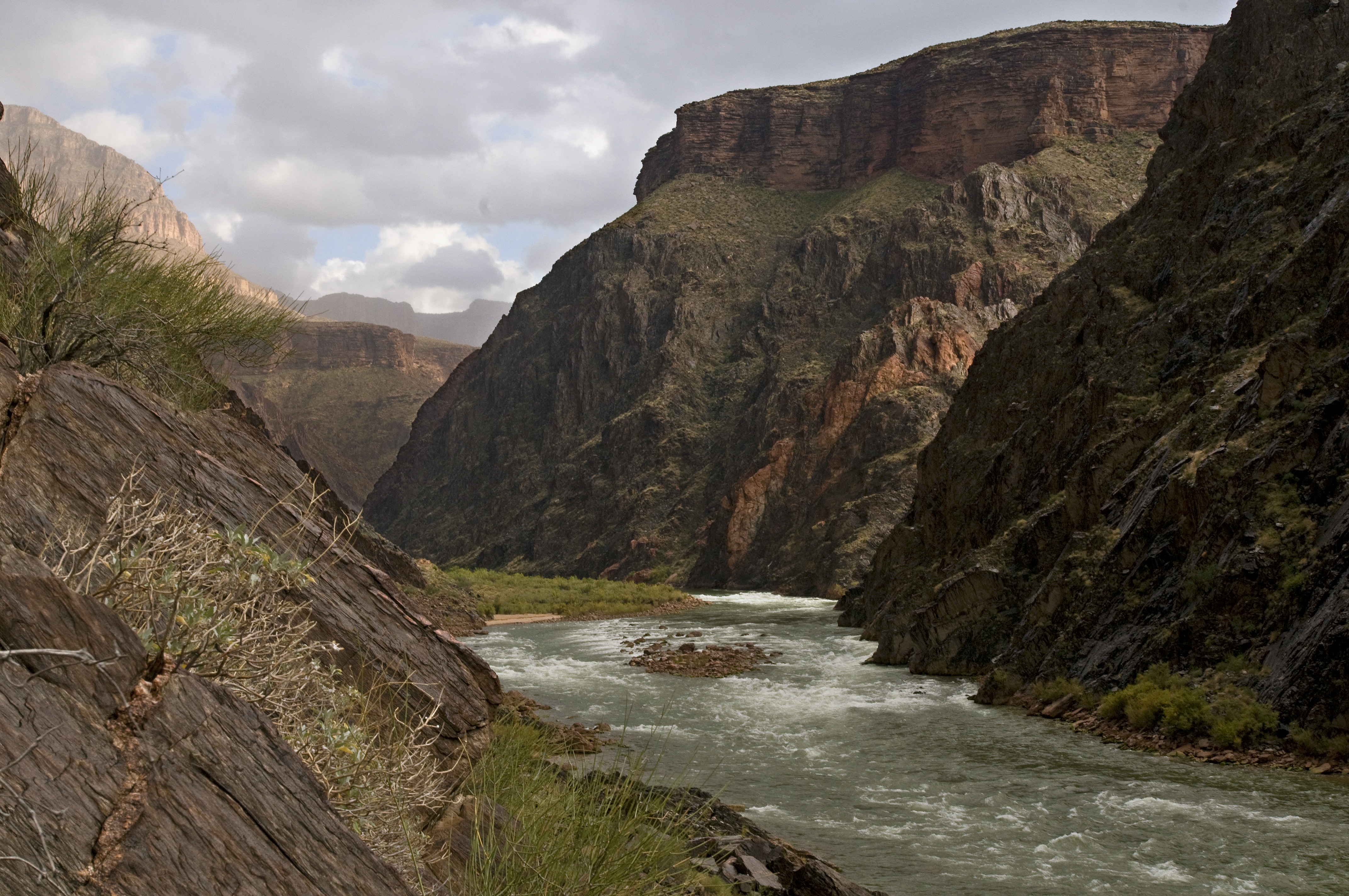 Crystal Rapid, as seen at low water flows in October 2012. NPS Photo by Kristen M. Caldon